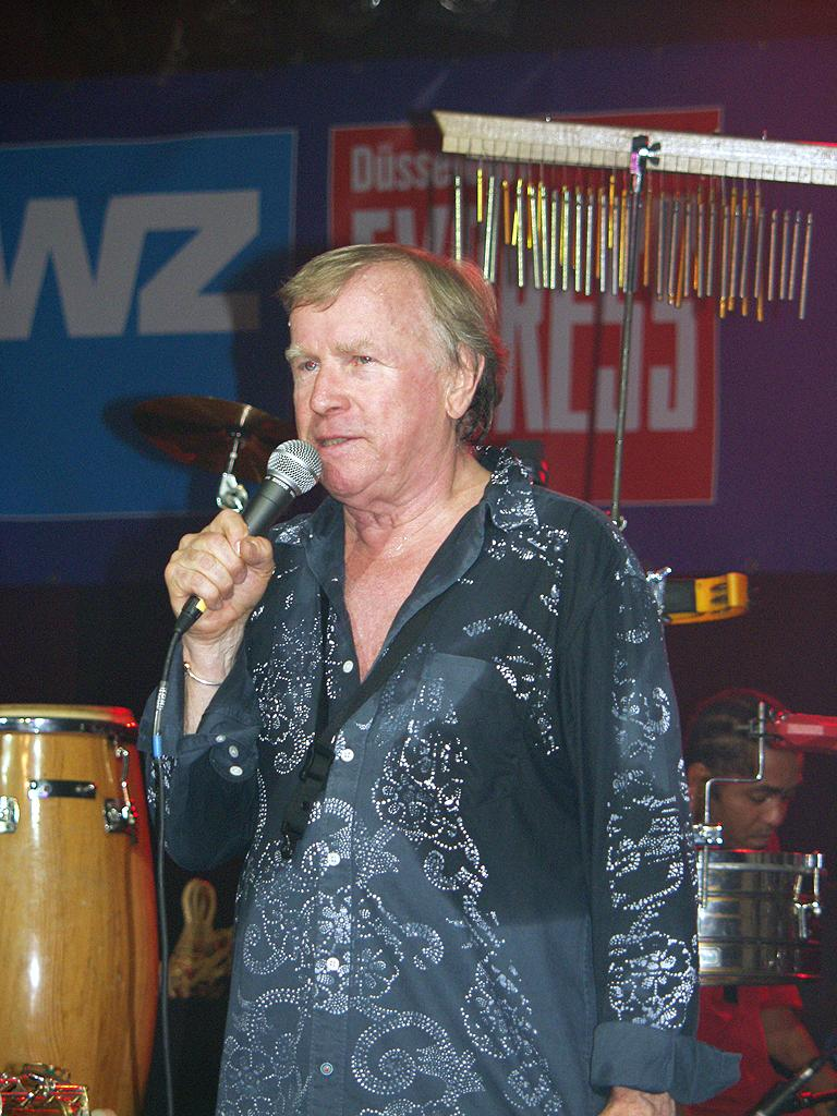 Klaus Doldinger at the "Düsseldorfer Jazz-Ralley" 2004